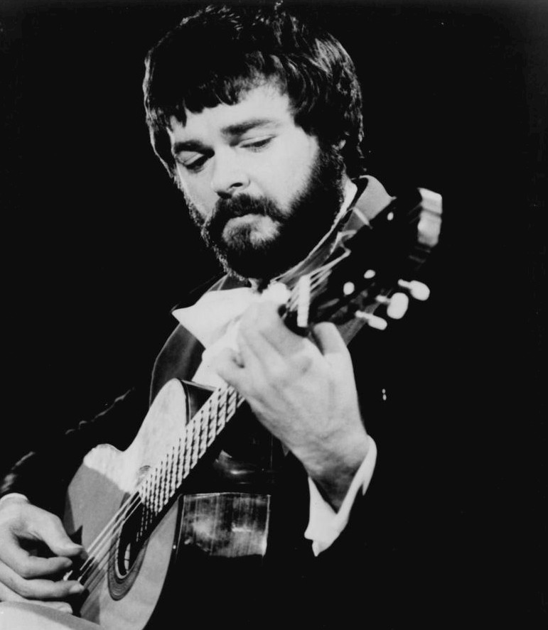 Photo of musician, composer, poet and writer Mason Williams.